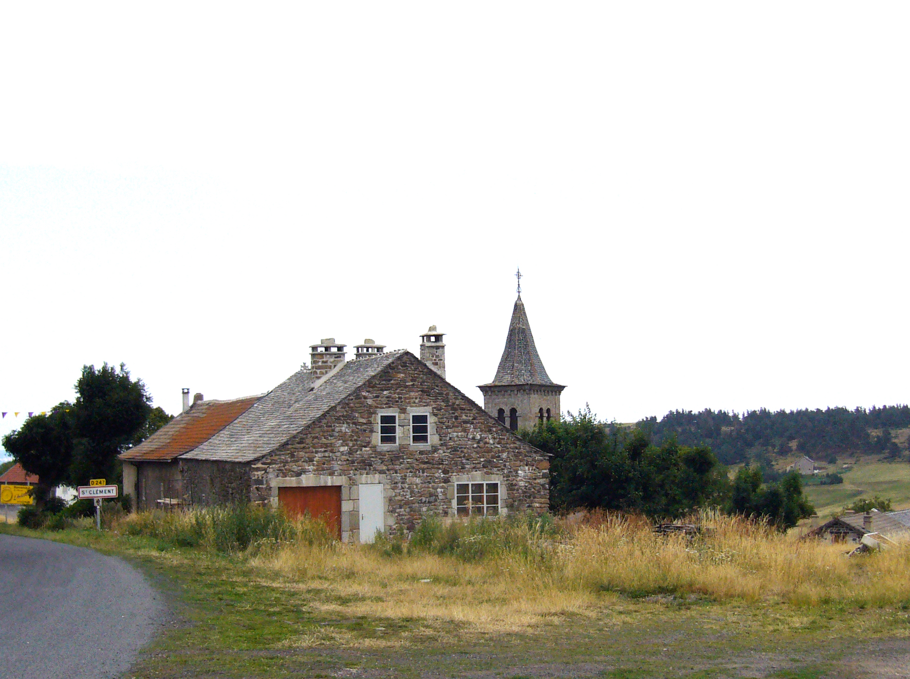 The entrance of town. Saint-Clément, Ardèche, France. July 2006